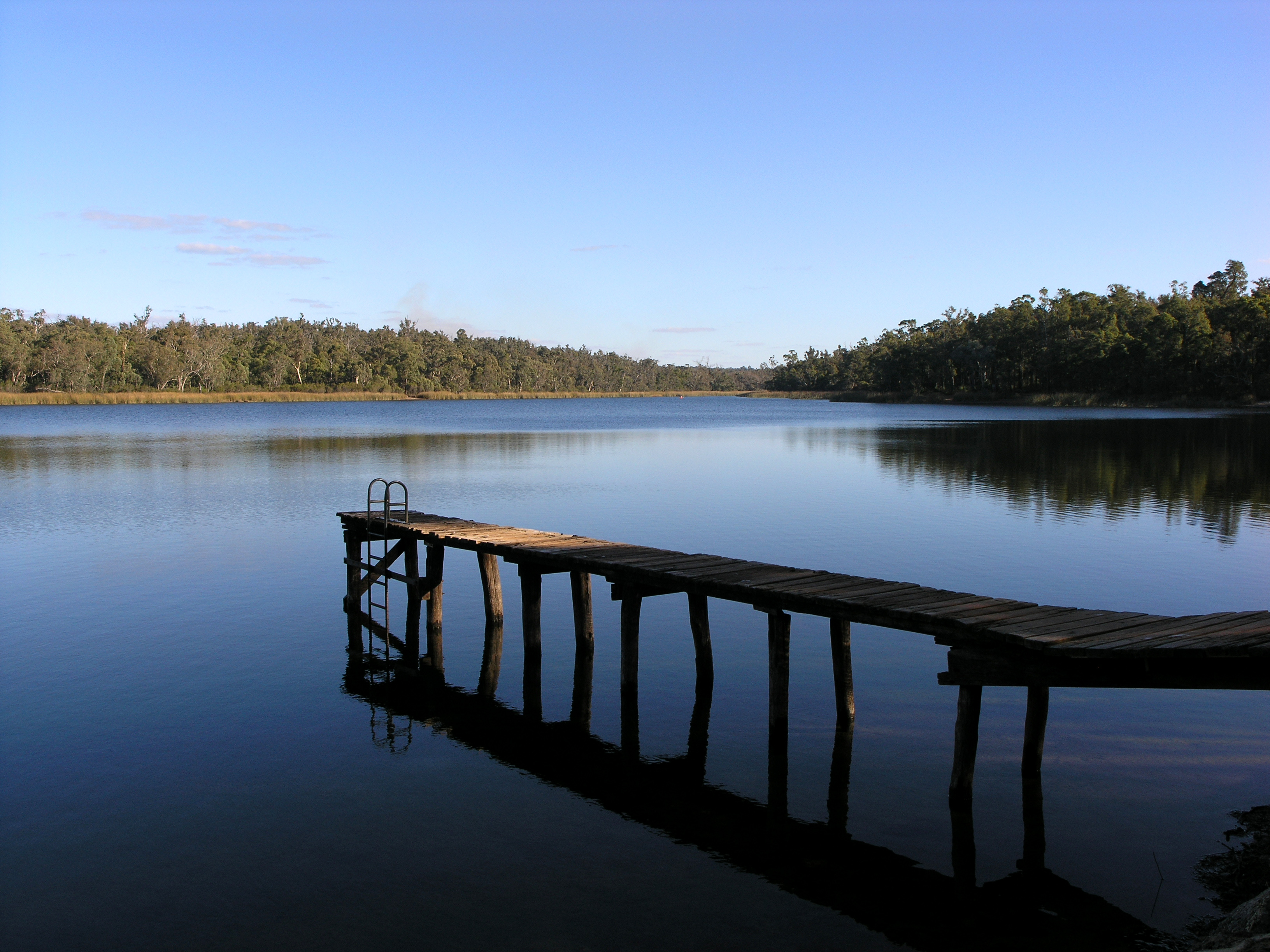 Lake Leschenaultia, Perth, W.A. Taken by me.